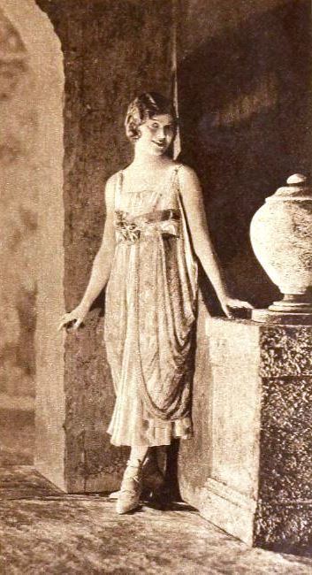 Edith Day in Irene at the Vanderbilt Theater, on page 27 of the January 1920 Shadowland.